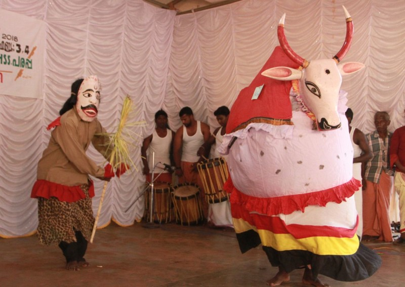 A ritual art form performed by Mavilan Tribe of Kasaragod District